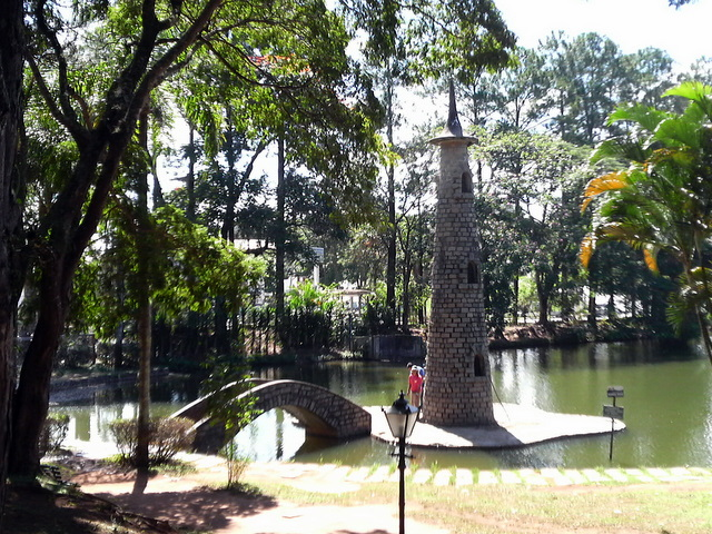 Symbol Tower of Atibaia's Edmundo Zanoni Park